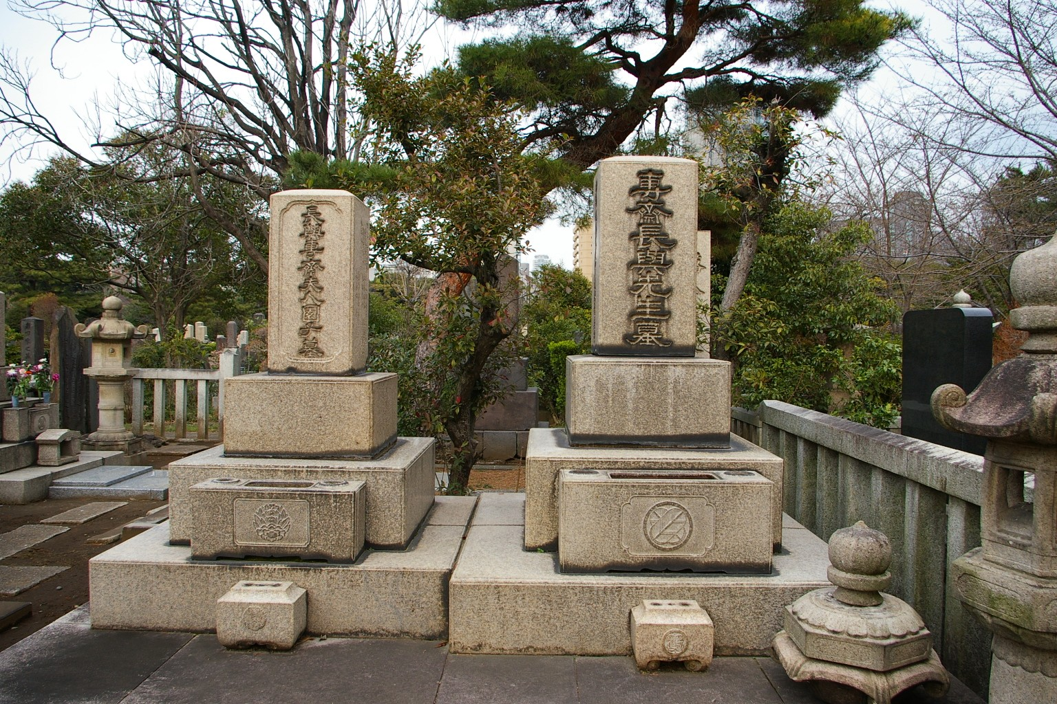 taken by Srinivasa Aiyangar Ramanujan